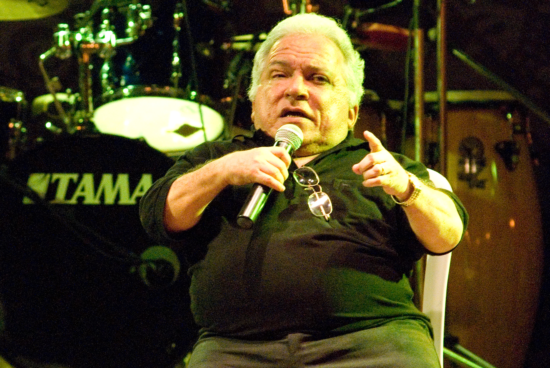 Nelson Ned in 2008